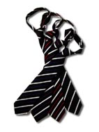 House ties from Nottingham_High_School